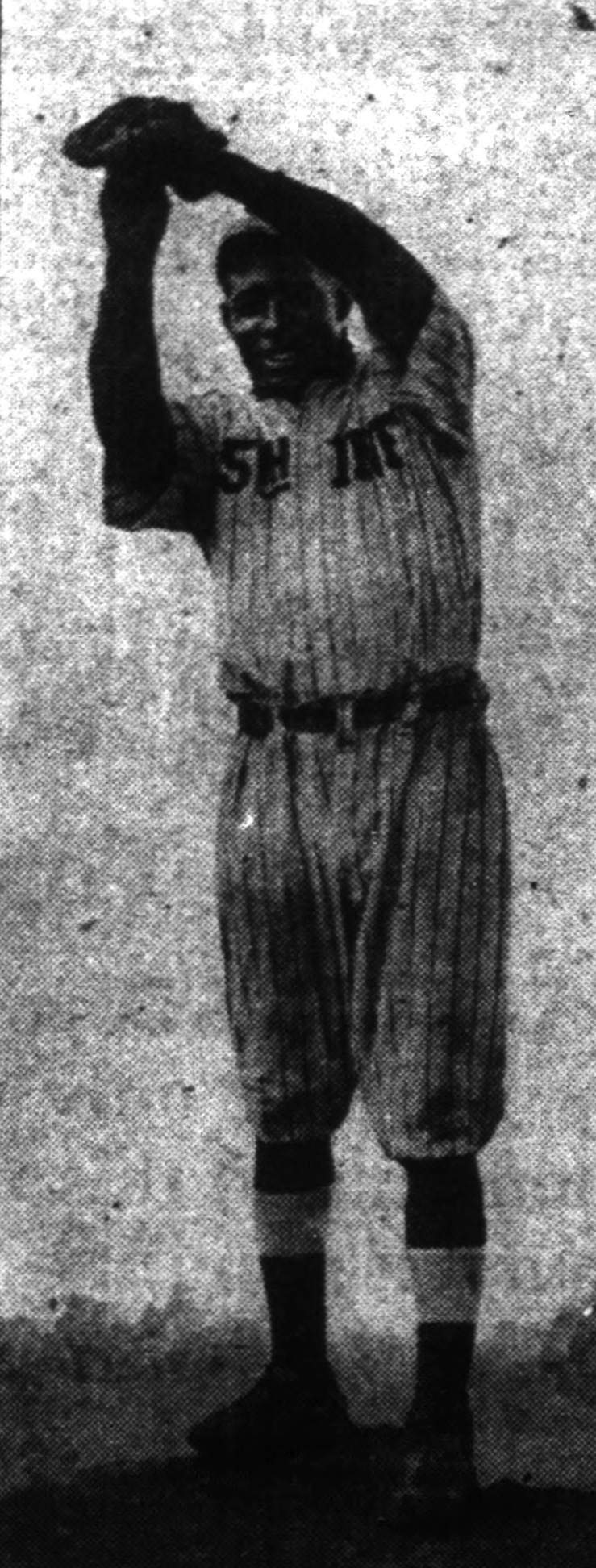 Charles Wilber "Bullet" Rogan from the Honolulu Star-Bulletin August 18, 1917